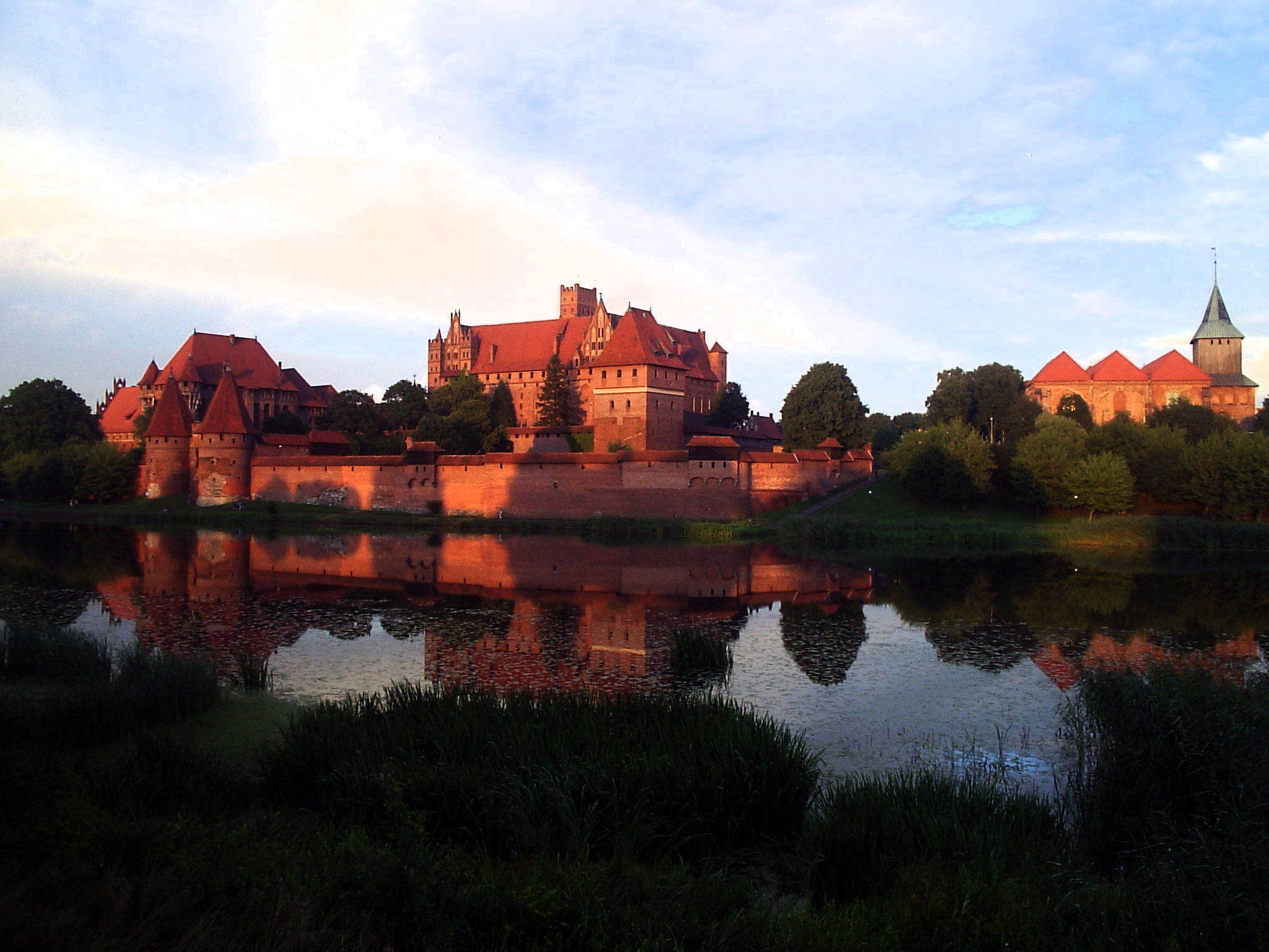 Teutonic castle - Malbork, Poland